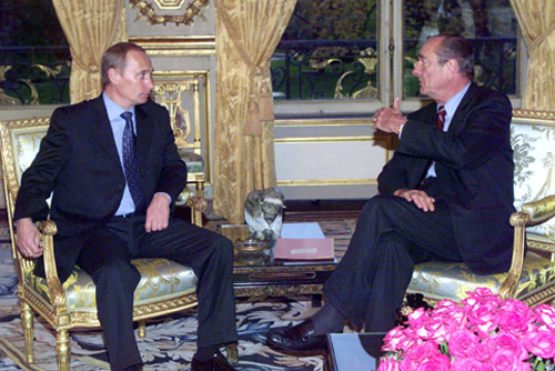 THE ELYSEE PALACE, PARIS. President Putin with French President Jacques Chirac.